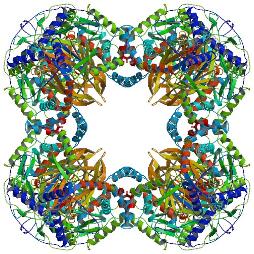 Mattevi, A., Obmolova, G., Kalk, K.H., Teplyakov, A., Hol, W.G., Crystallographic analysis of substrate binding and catalysis in dihydrolipoyl transacetylase (E2p), (1993) Biochemistry 32: 3887-3901